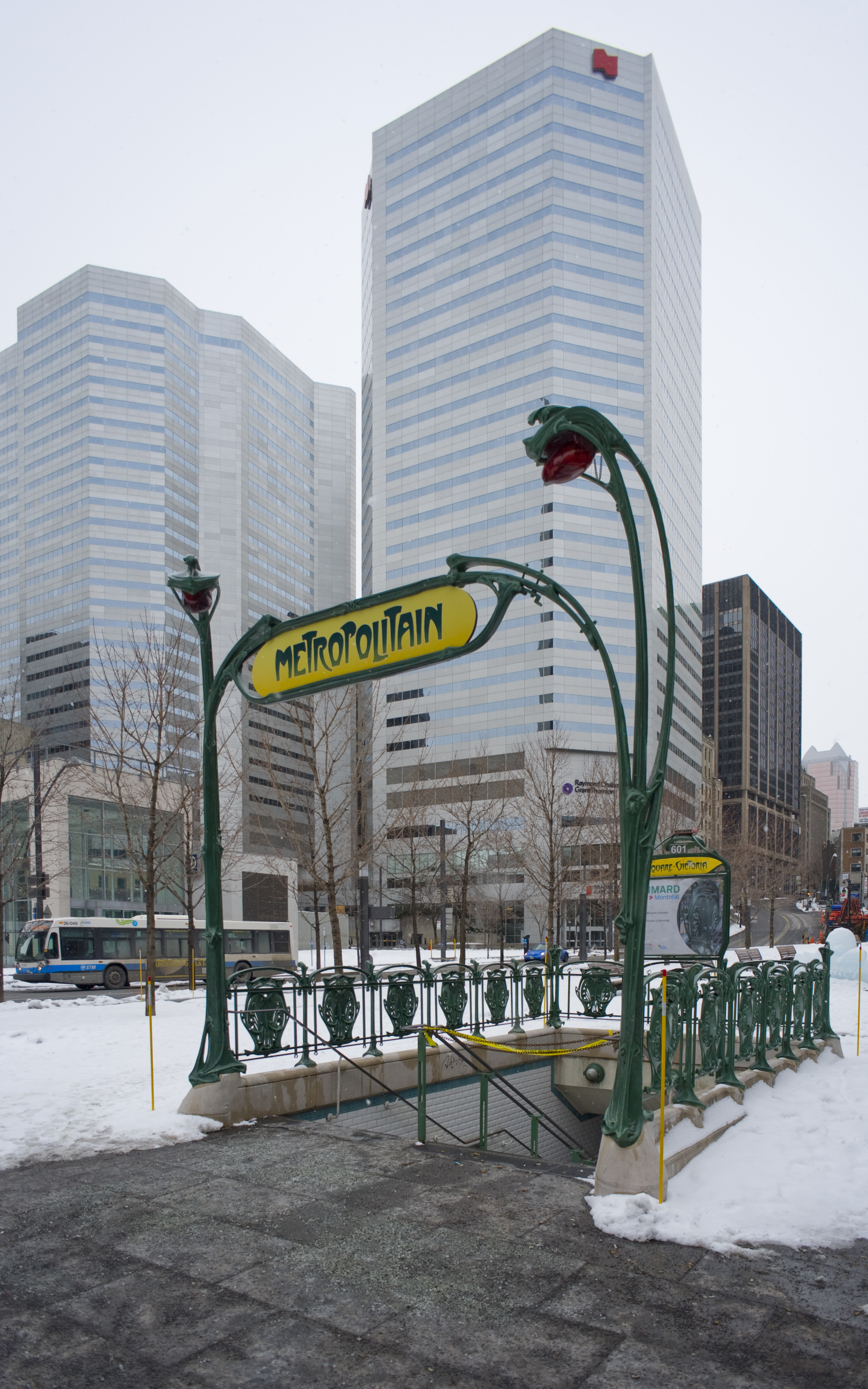 In 1965, the City of Paris gave Montréal a Guimard kiosk as it was building it’s subway network. It was installed in the Victoria square, downtown.